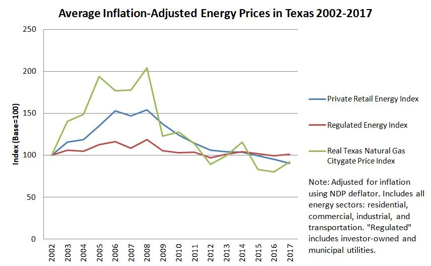 All raw data acquired from EIA and personally adjusted for inflation using the implicit price deflator for net domestic product.